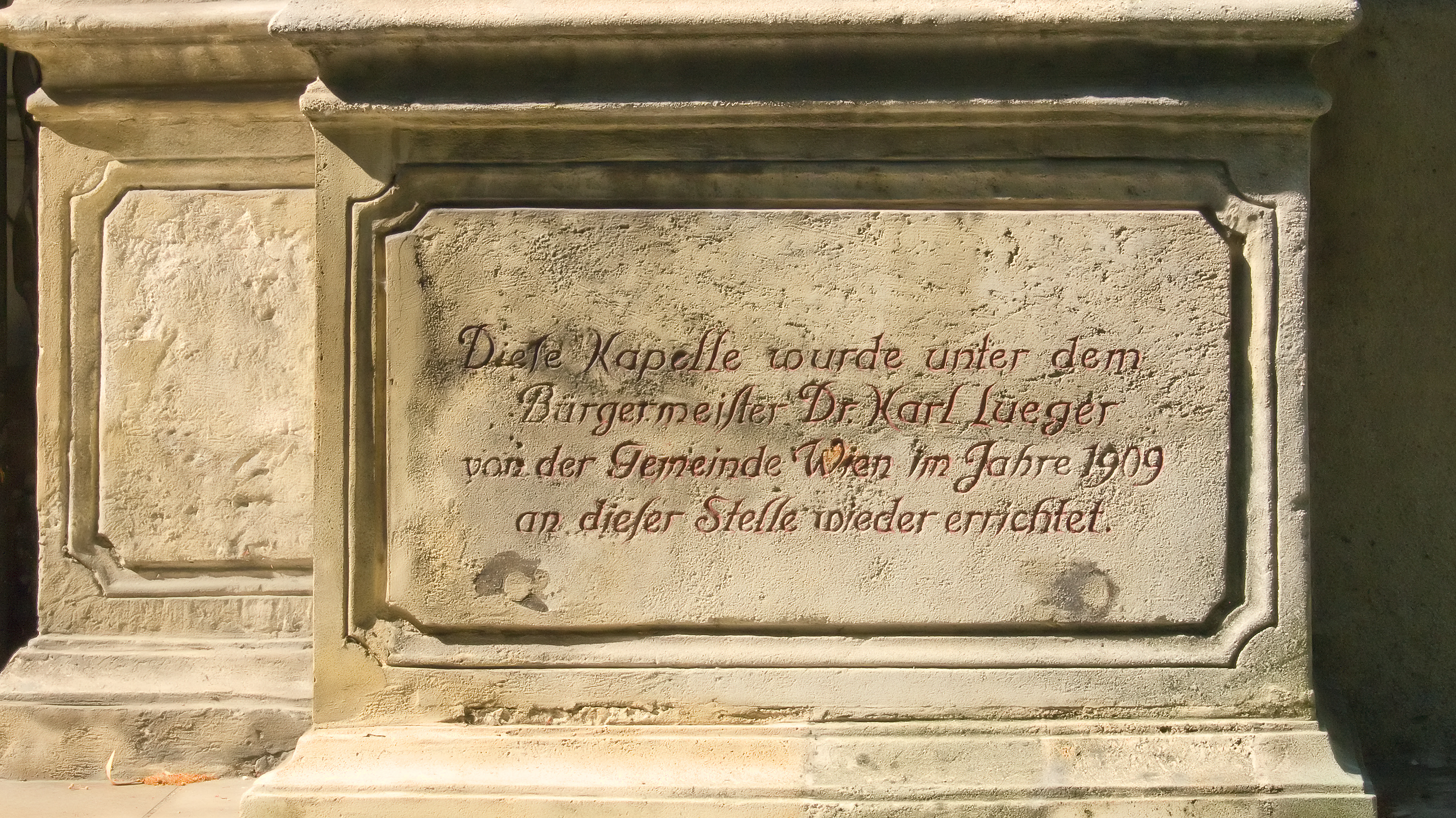 Public Park Wilhelm-Kienzl-Park in Vienna Leopoldstadt, Nepomuk chapel